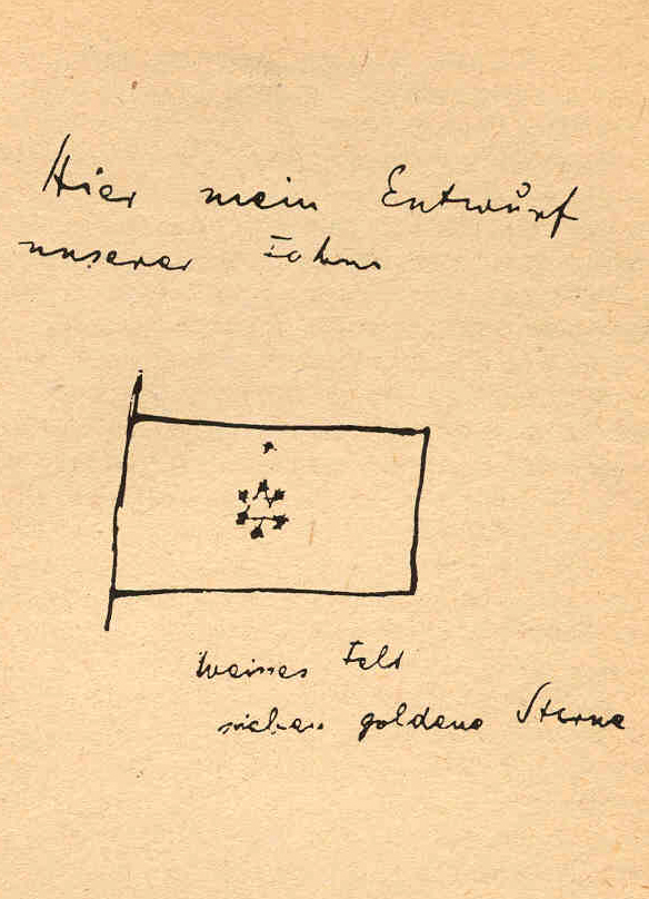 The Seven Stars flag, drawn by Herzl Translation: Here (is) my design for our flag, white field, seven gold stars.